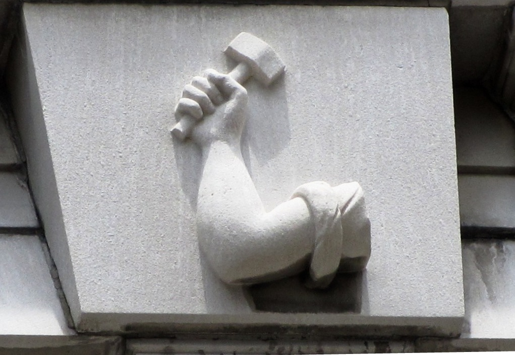 Arm-and-hammer symbol in the cornice above the top-floor window of the Mechanics' Bank and Trust Company Building in Knoxville, Tennessee, USA.